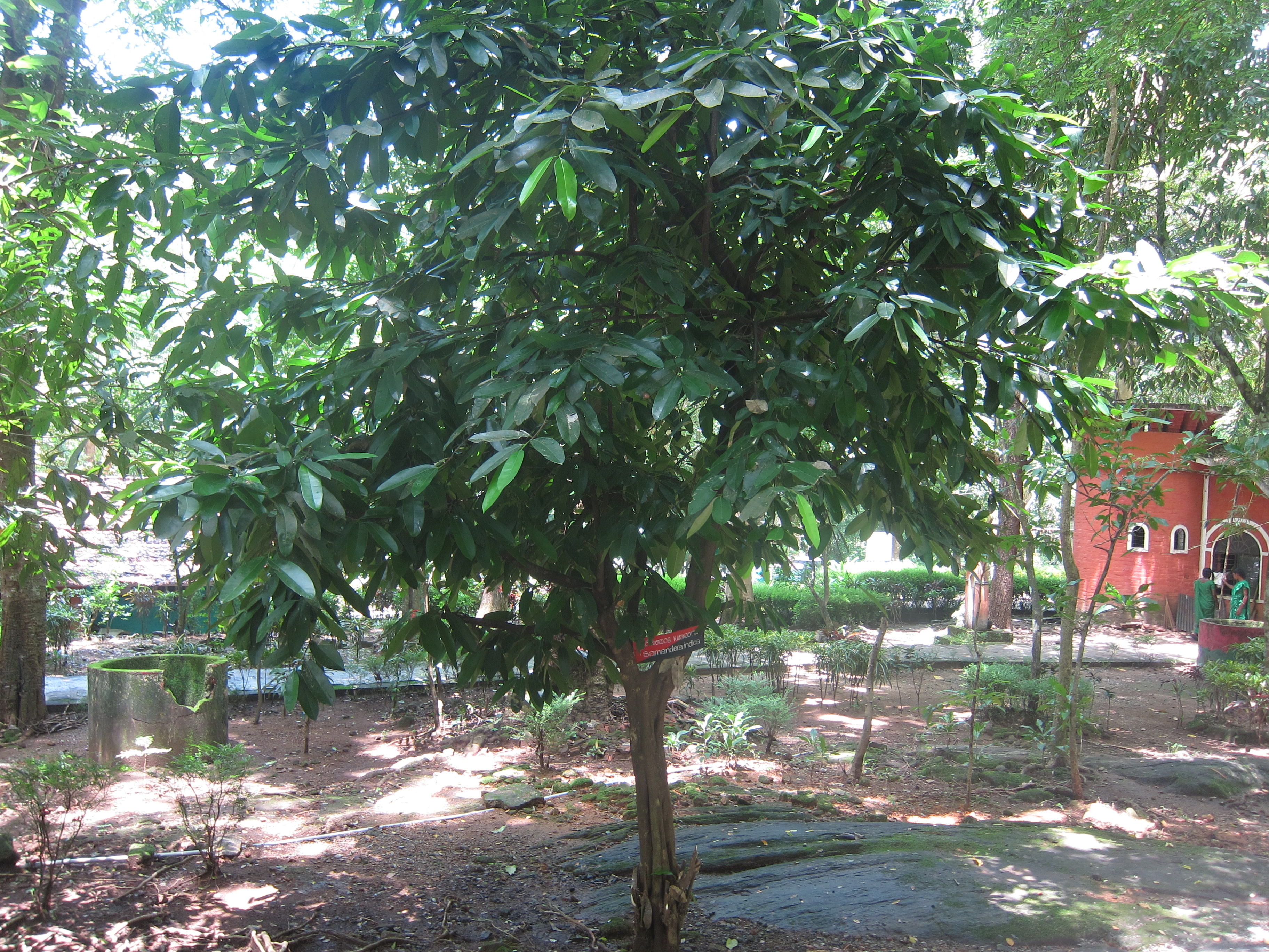 Karinjotta - കരിഞൊട്ട Samadera indica കരിങ്ങോട്ട, കരിഞ്ഞോട്ട ശാസ്ത്രീയനാമം: Quassia indica